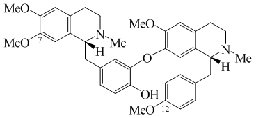 Neferine structure